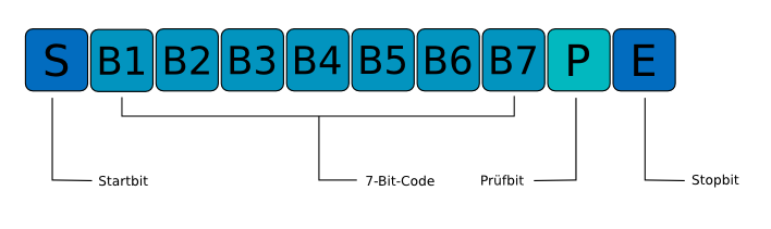 Aufforderungsphase beim DIN-Messbus, request phase on the measurement bus